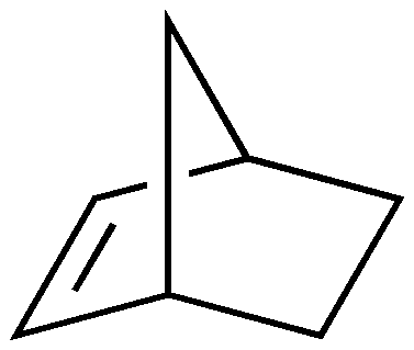 Chemical structure of norbornene